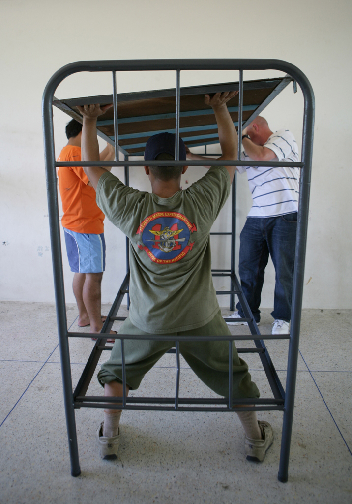 Navy Lt. Ryan Bareng and others assemble a newly painted bed frame while volunteering at Sarakul Stadium March 6. Service members aboard USS Rushmore cleaned and painted for the Phuket Athletic Club, a nationally competing track-and-field team. The volunteers – service members with the 11th Marine Expeditionary Unit and Bonhomme Richard Amphibious Ready Group – spent the day fixing bent bed frames, cleaning rooms and painting beds and lockers. The stadium offers boys an alternative to growing up in Phuket neighborhoods where drugs and crime affect many young people. Bareng is the chaplain for Battalion Landing Team 2/4, the 11th Marine Expeditionary Unit’s ground combat element.